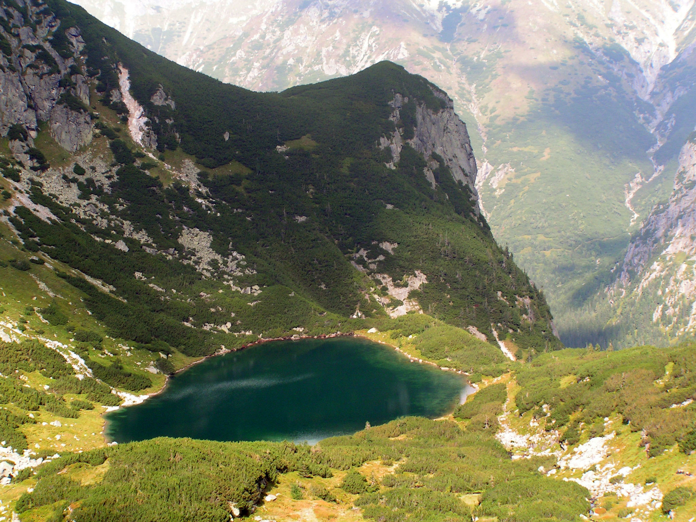 Ťažké pleso Lake as seen from Ťažká dolina Valley in the Tatra Mountains, Tatra National Park, northern Slovakia.